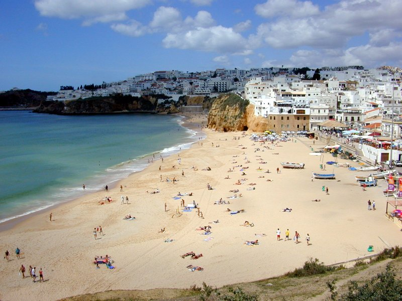 The Fishermen's Beach at Albufeira, Portugal. This image was taken by Ed Kitaura on April 30, 2003 using a Nikon Coolpix 950.